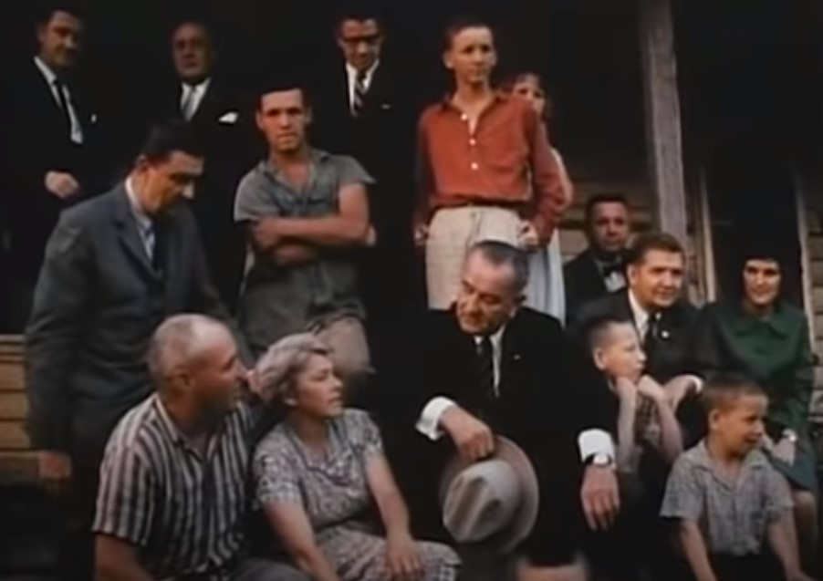 U.S. President Lyndon B. Johnson visiting the home of sharecropper William David Marlow in Nash County, North Carolina to promote his War on Poverty program. Marlow sits at the bottom left of the frame with his wife. North Carolina Governor Terry Sanford sits to the right of Johnson.